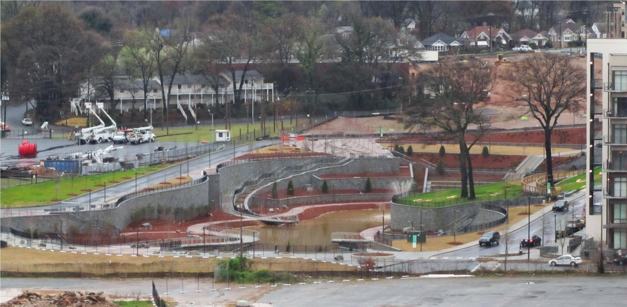 Historic Fourth Ward Park, July 2011